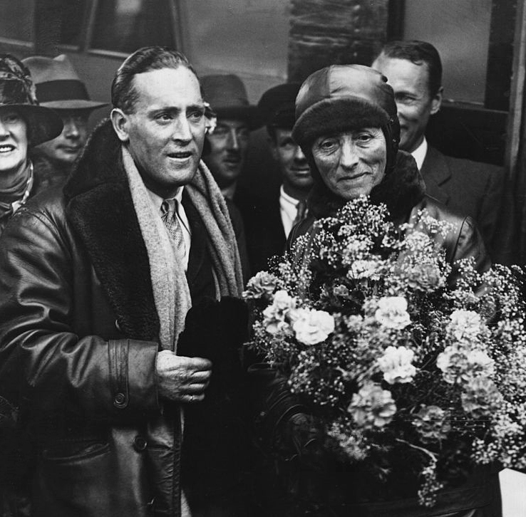 Mary, Duchess of Bedford, (1865 - 1937), nee Mary Du Caurroy, the wife of the 11th Duke of Bedford on arrival at Croydon Aerodrome, after flying to India and back in a week, a record-breaking flight. She is with her pilot Captain Barnard.